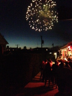 Fourth of July fireworks over Cherry Grove, Fire Island